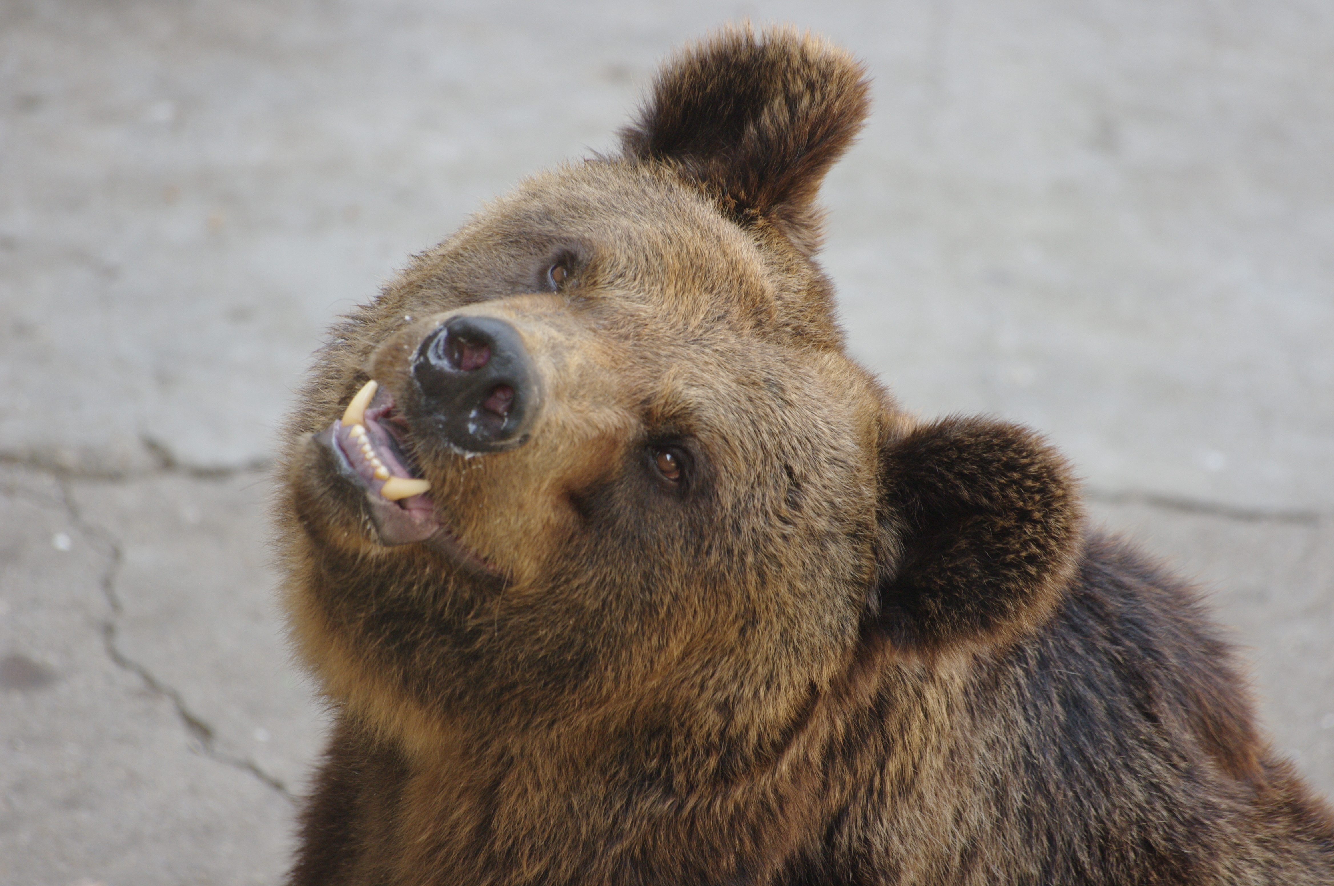 Ussuri brown bear (Ursus arctos lasiotus) in the Beijing Zoo